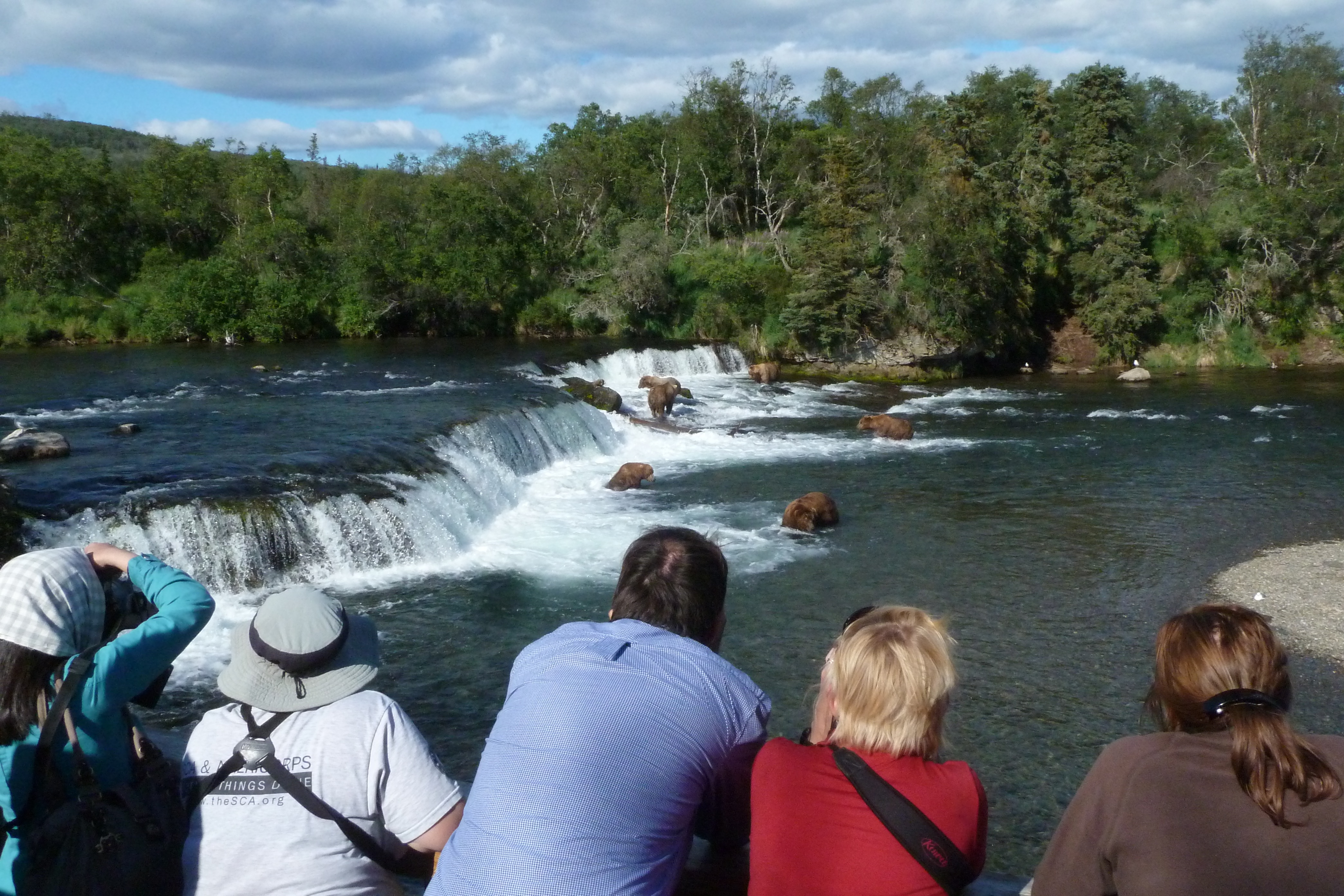 bears fishing falls